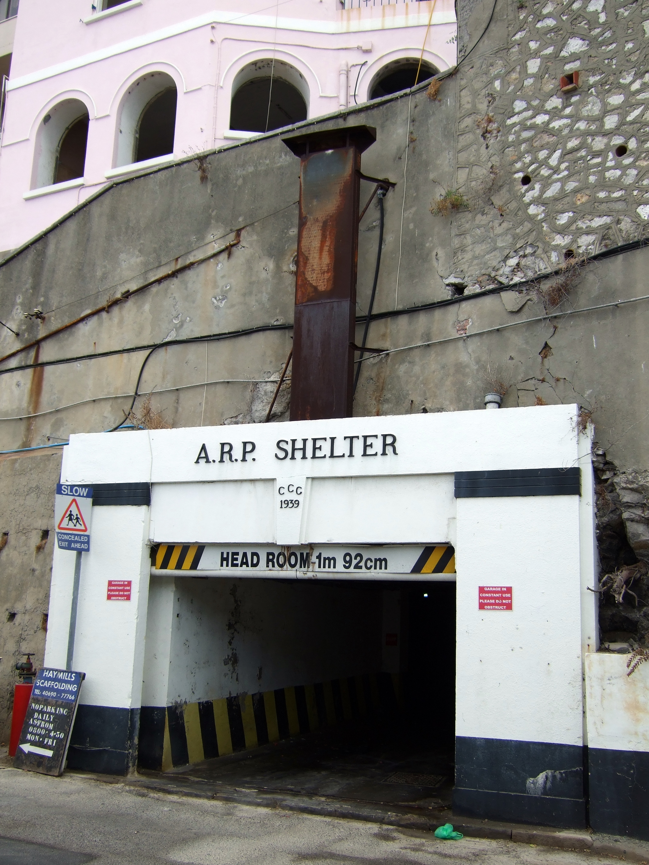 Air Raid Precautions (ARP) Shelter in Prince Edward's Road, Gibraltar, now used as a car park.